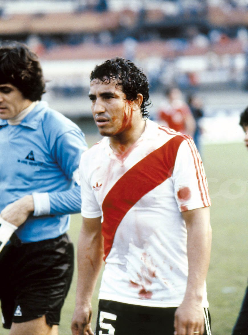 A bloody River plate player Américo Gallego, after suffering an injury. Besides him, Ubaldo Fillol.